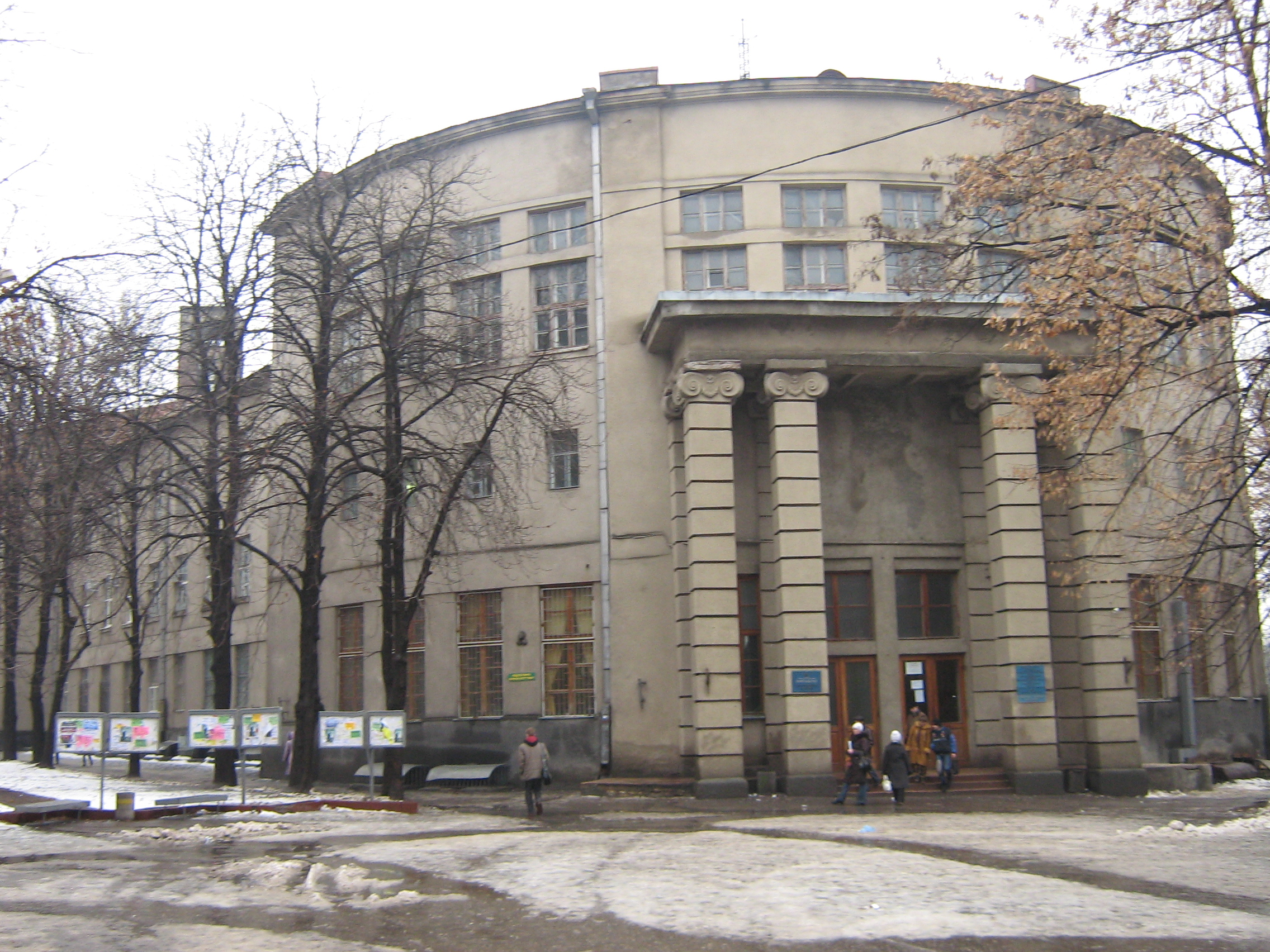 Electrical Packaging National Technical University of Kharkov Polytechnic Institute.